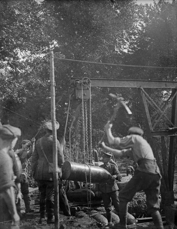 The Battle of the Somme, July - November 1916 Battle of the Somme. Preparing to load a 15-inch howitzer during the bombardment of Beaumont Hamel, 1st July 1916.